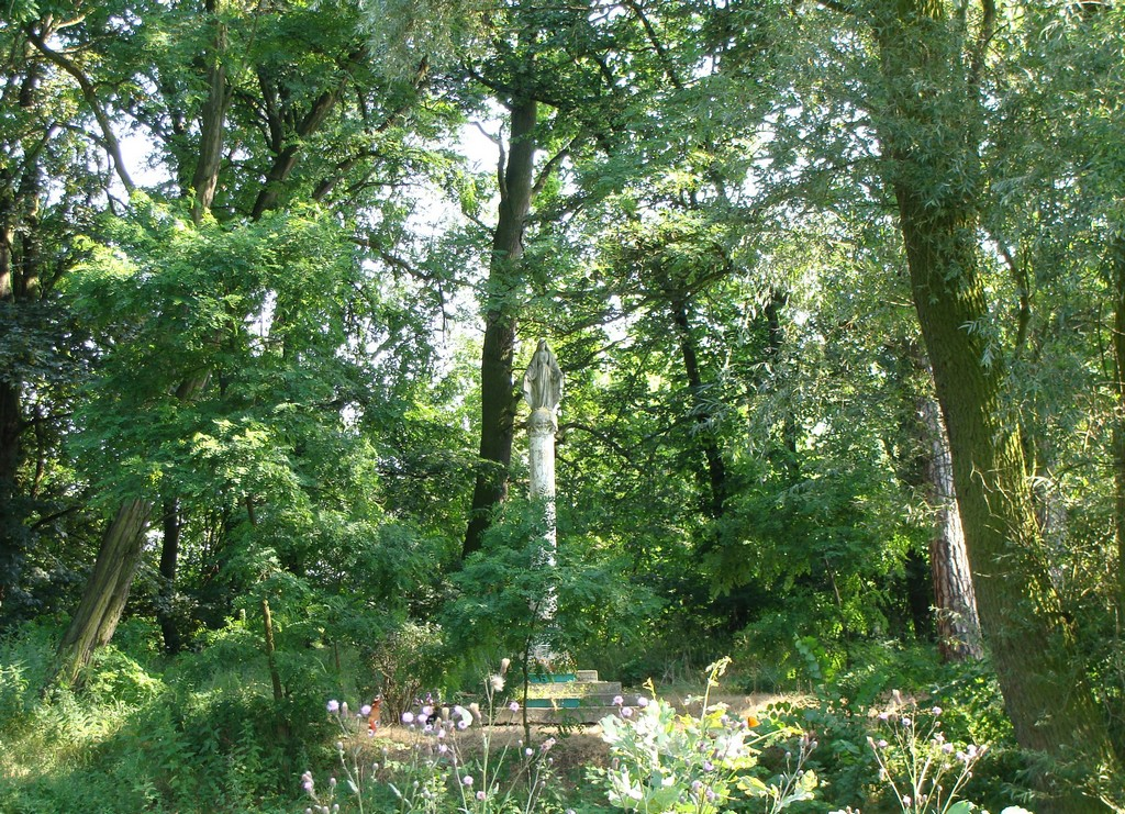 Łęg, roadside shrine.